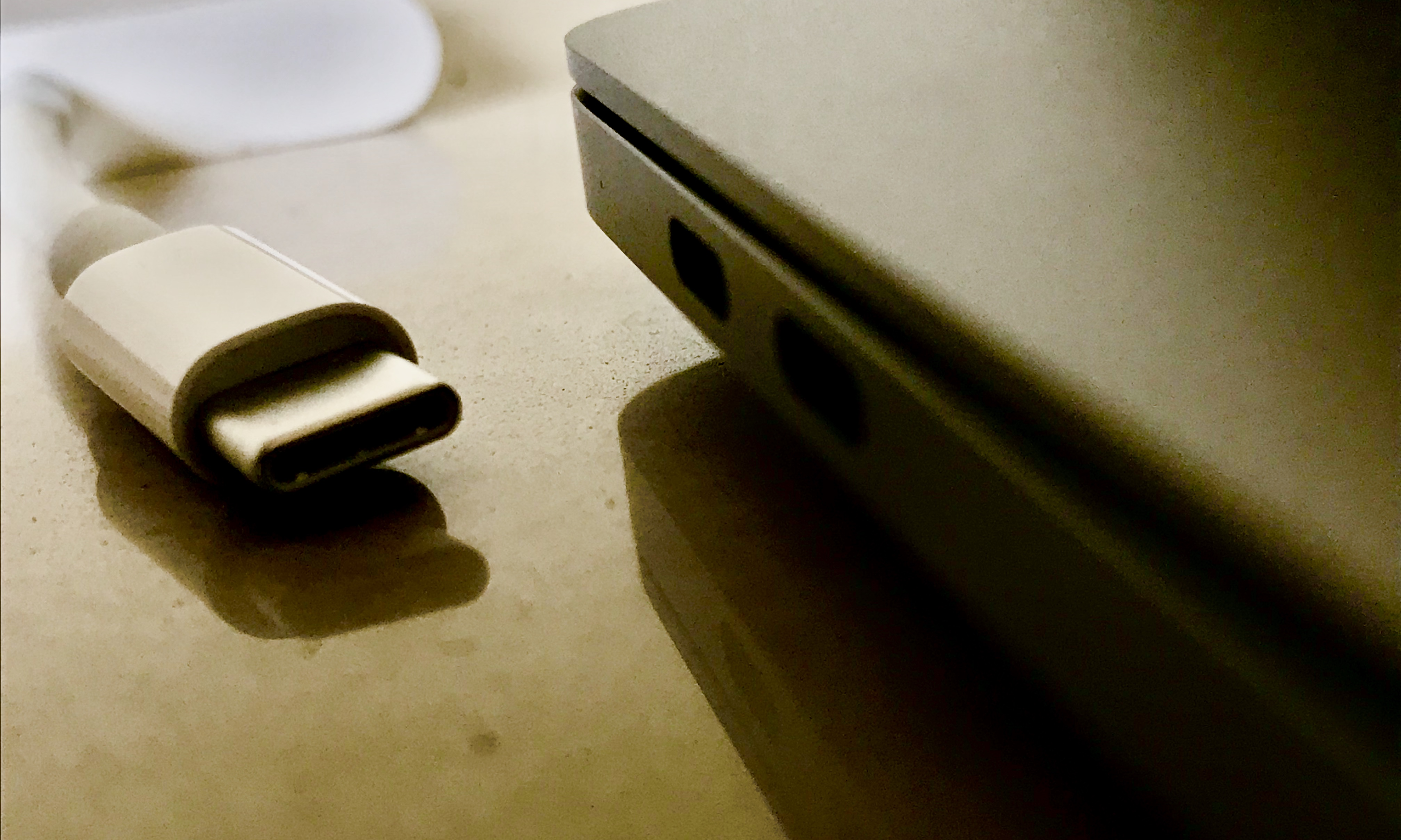 Thunderbolt 3 ports on MacBook Pro with Touch bar